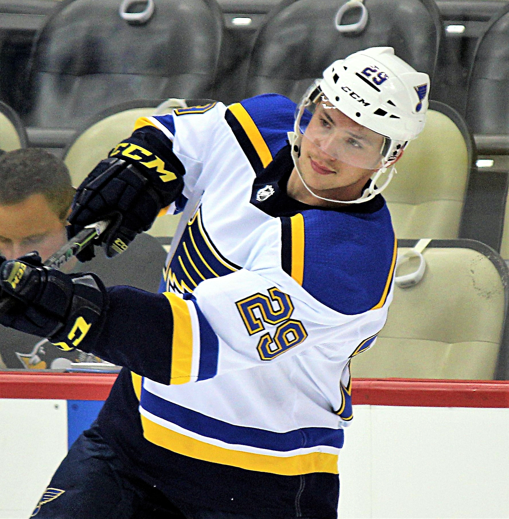 St. Louis Blues defenseman Vince Dunn during a game against the Pittsburgh Penguins, October 4, 2017, at PPG Paints Arena in Pittsburgh, PA.